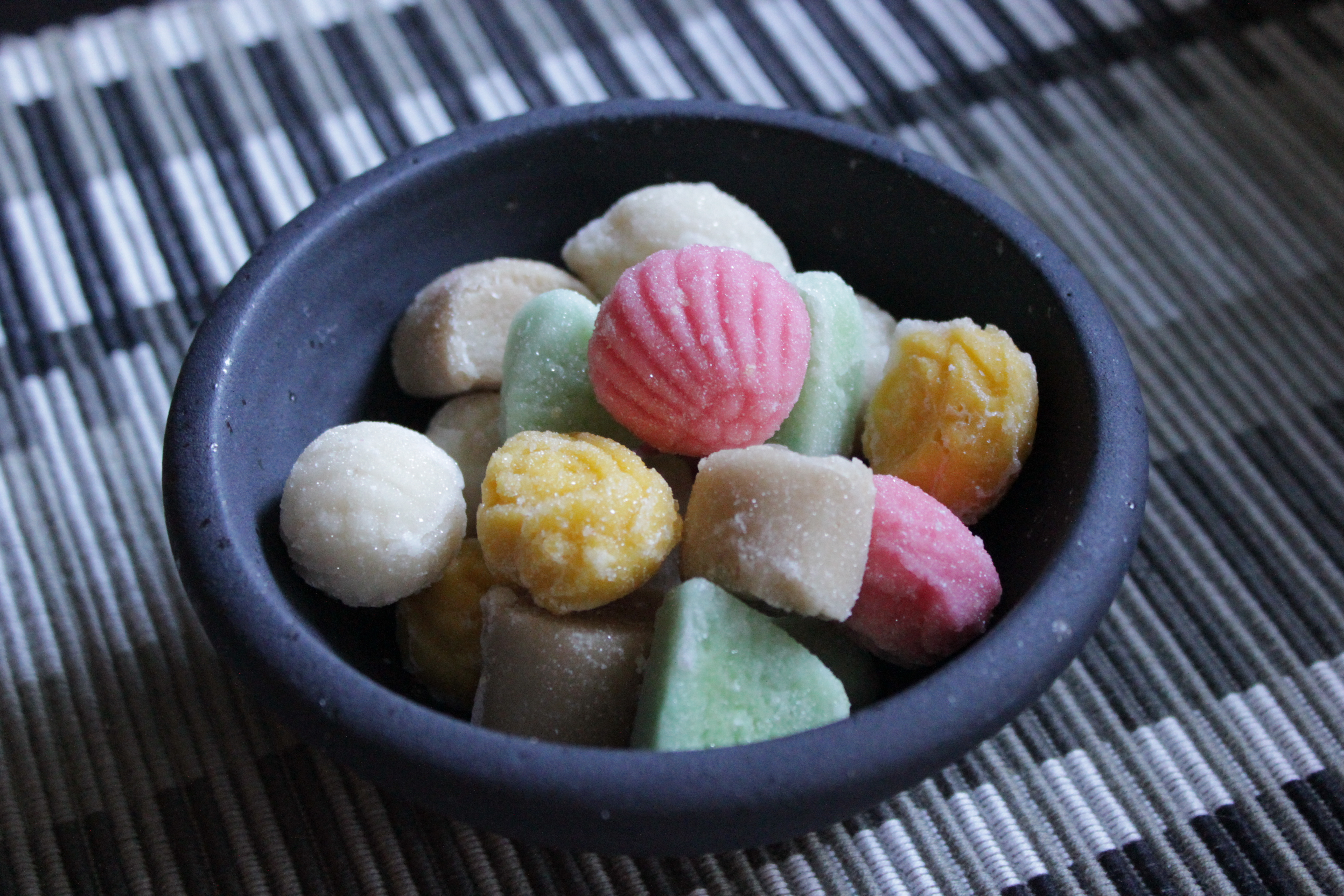 Teaterkonfekt, Swedish candy